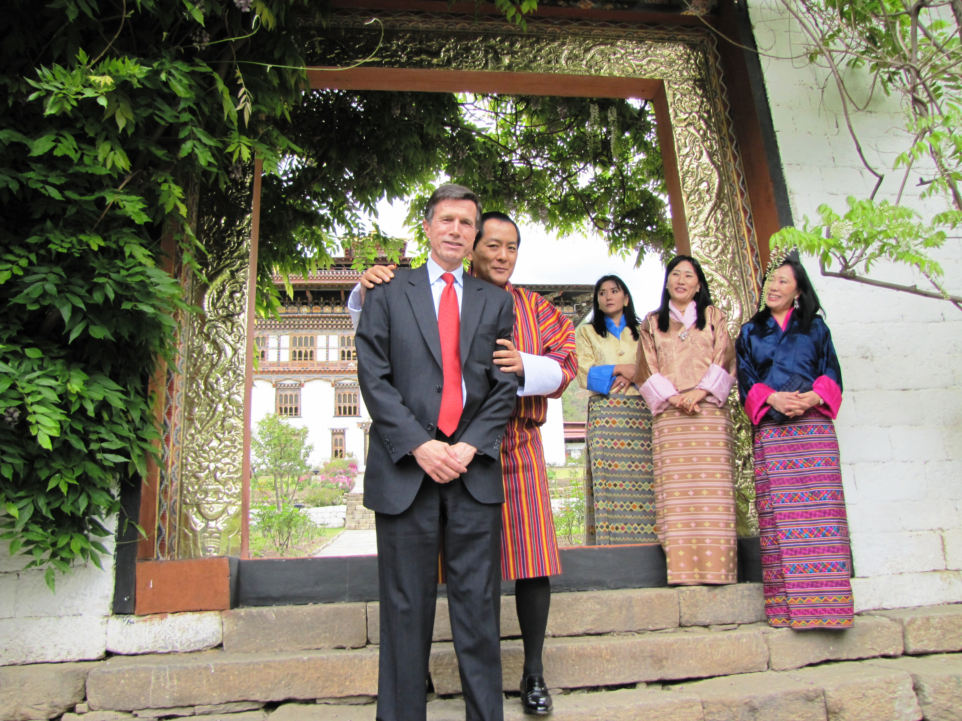 Assistant Secretary of State for South and Central Asian Affairs Robert O. Blake, the Fourth King of Bhutan Jigme Singye Wangchuck, and three of his wives pose for a photo in front of Dechencholing Palace, in Thimphu, Bhutan, on April 29, 2010. [State Department Photo/Public Domain]